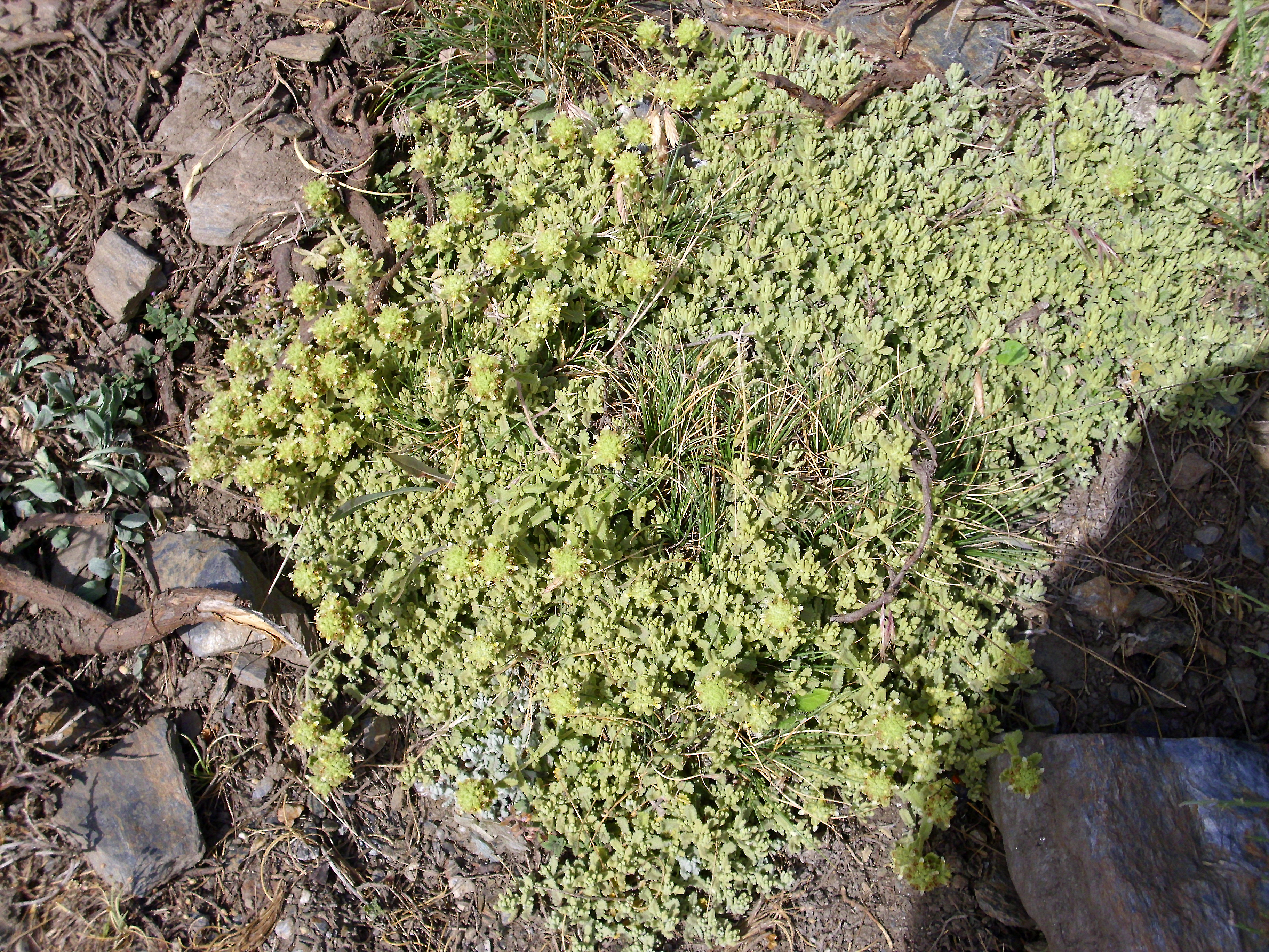 Teucrium capitatum subsp. capitatum habit, Sierra Nevada, Spain